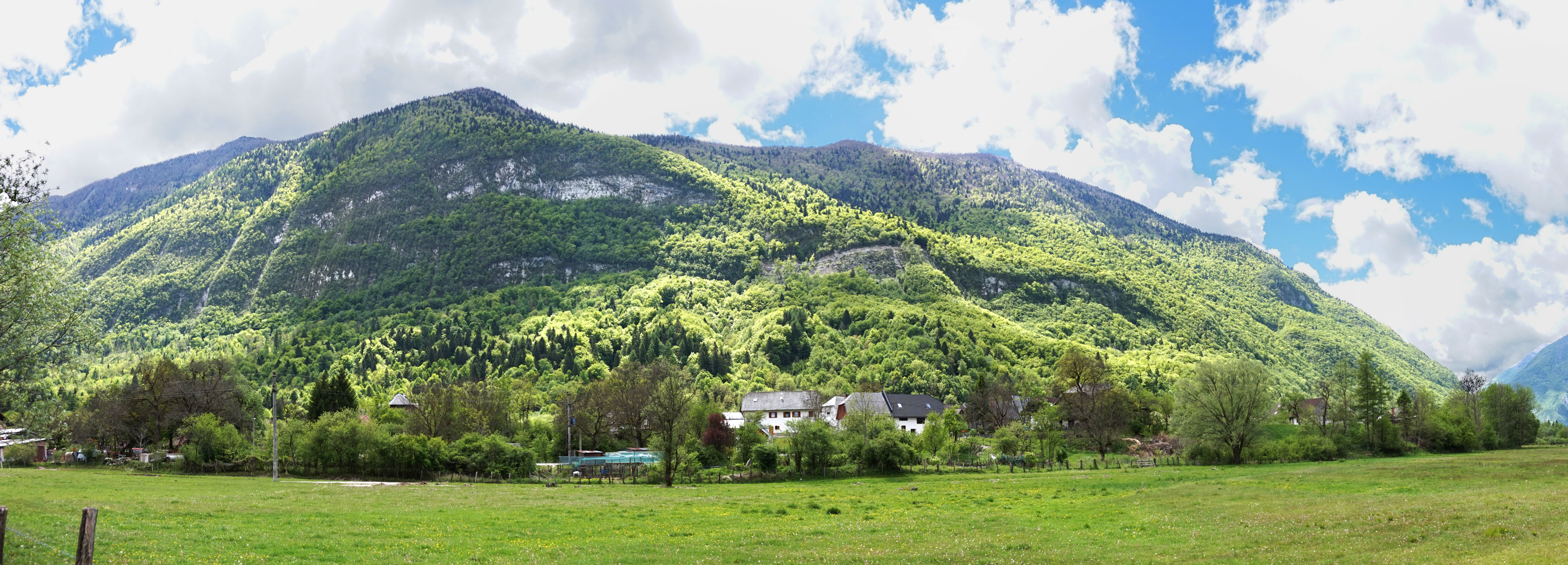 Čezsoča and mountains, Slovenia.This photograph was taken with a Sony ILCE-5000